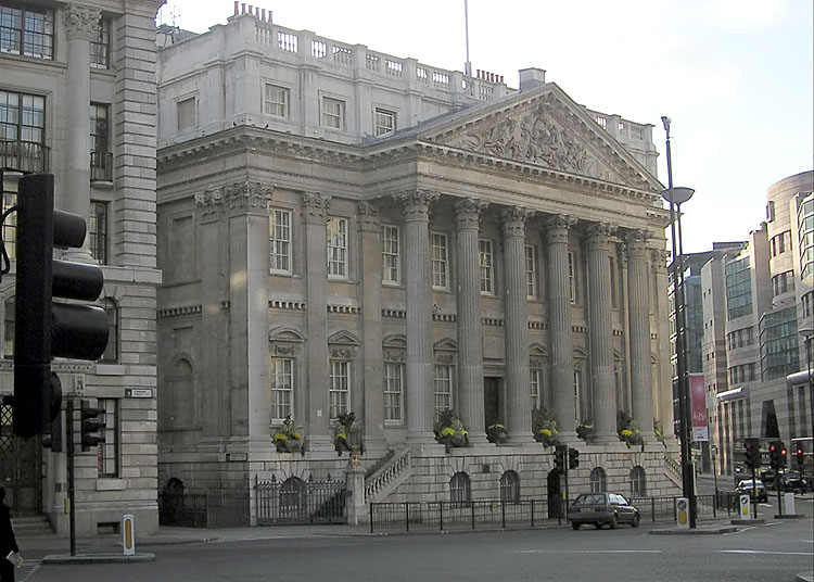 Mansion House (London). Taken by Adrian Pingstone in November 2004 and released to the public domain.